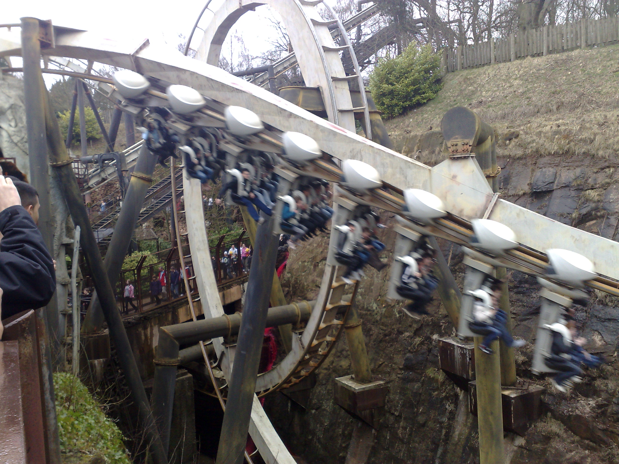 Nemesis, inverted roller coaster at Alton Towers.